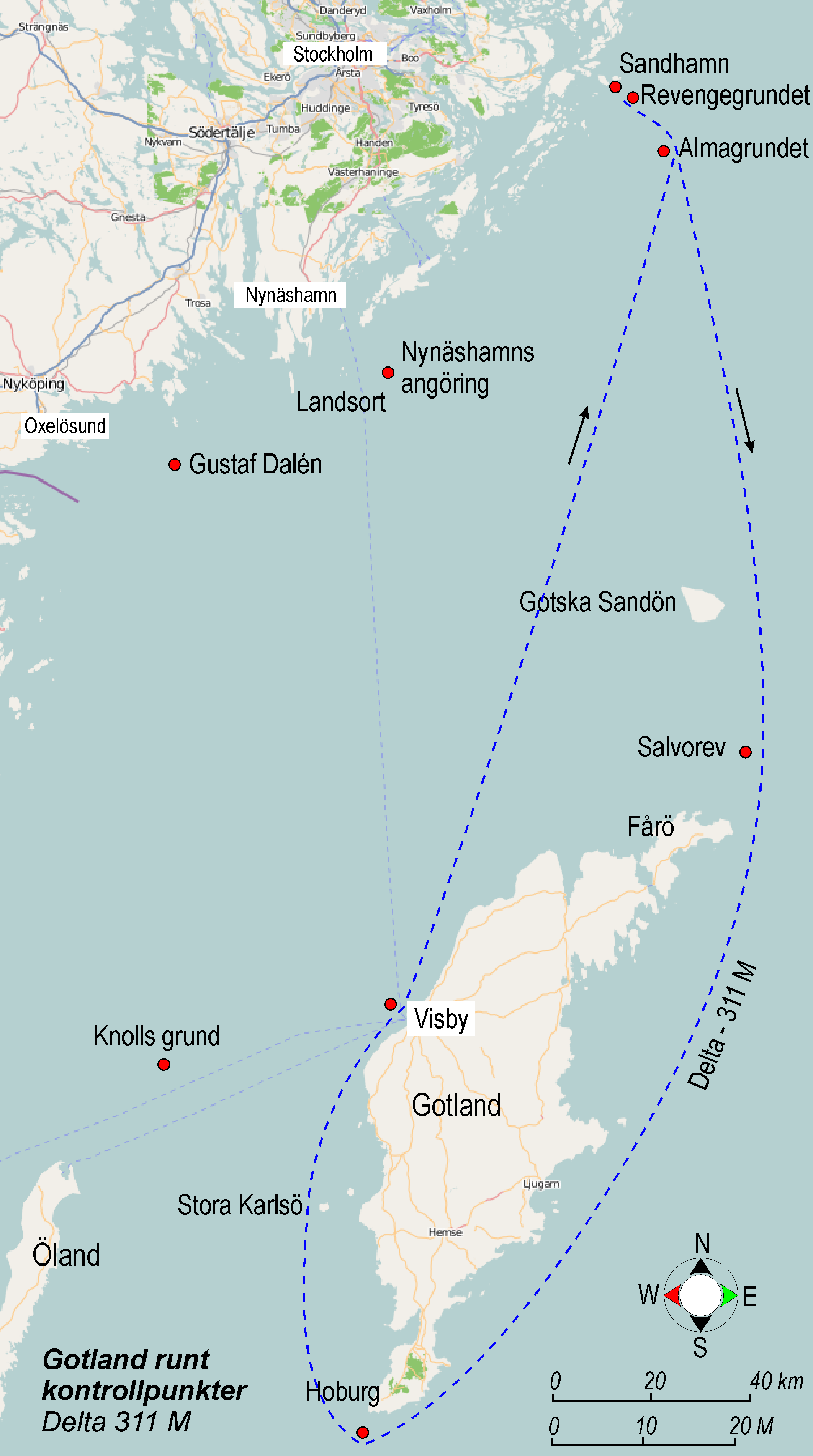 Main check points for Eurocard Round Gotland offshore sailing races. Navigational track Delta shown.